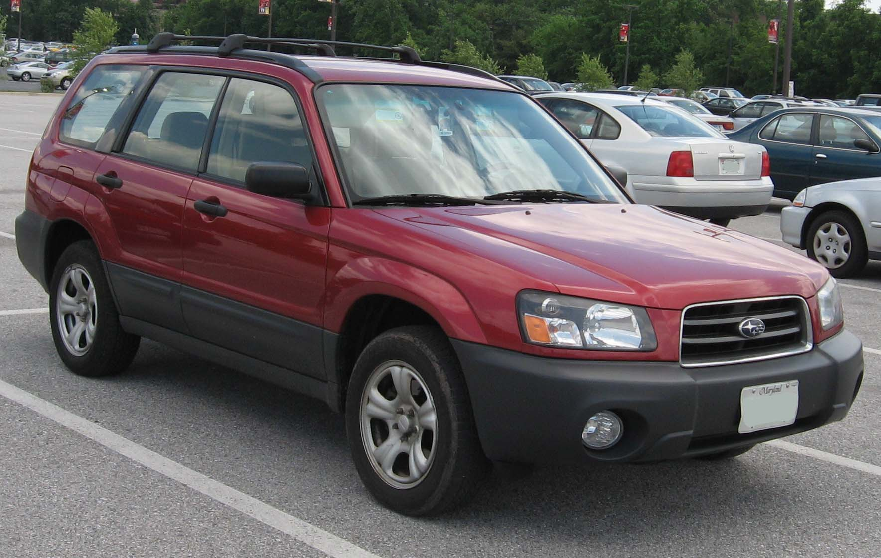 2003-2005 Subaru Forester photographed in USA.